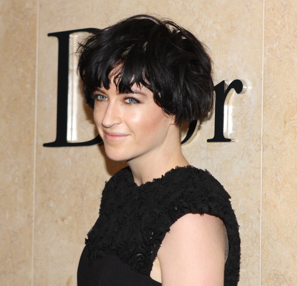 Christian Dior couture opens Sydney CBD store.